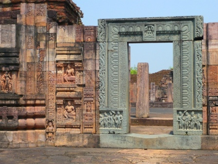 Entrance to Monastery 1, Ratnagiri, Jajpur, Orissa